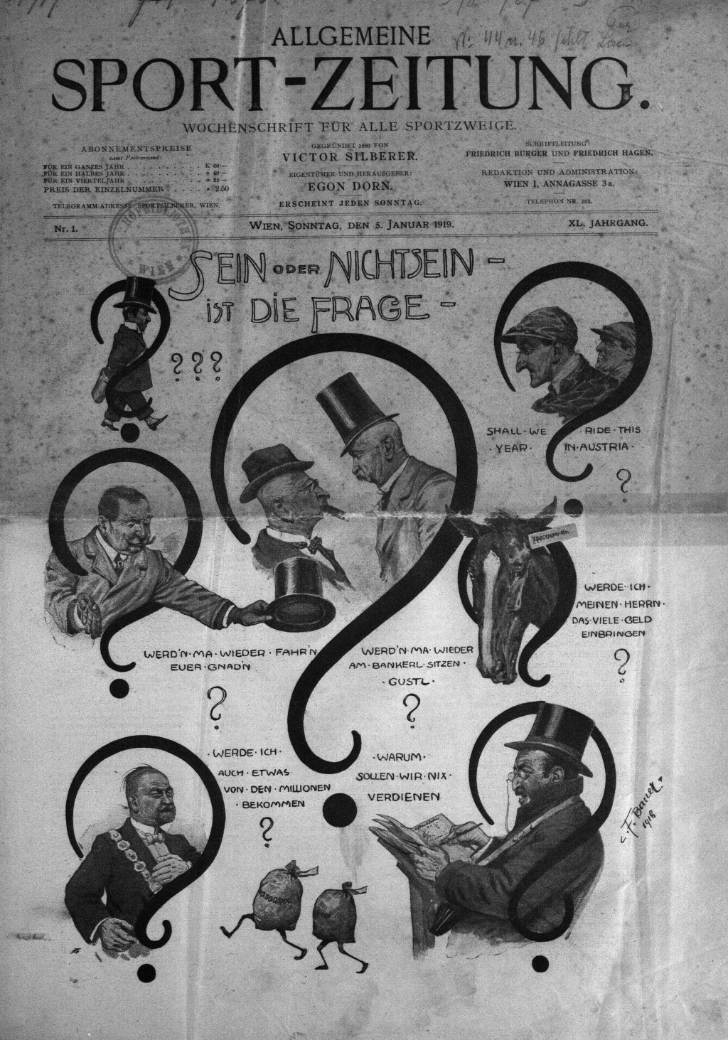 Cover from the "Allgemeine Sport-Zeitung", 1919